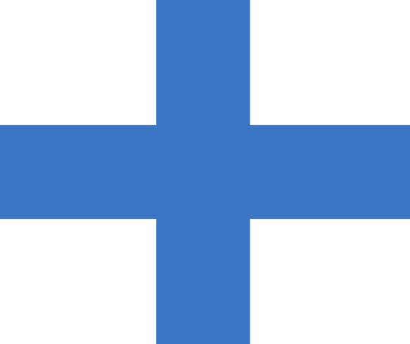 From the original flag designed by chiftain Nicolaos Tsamis